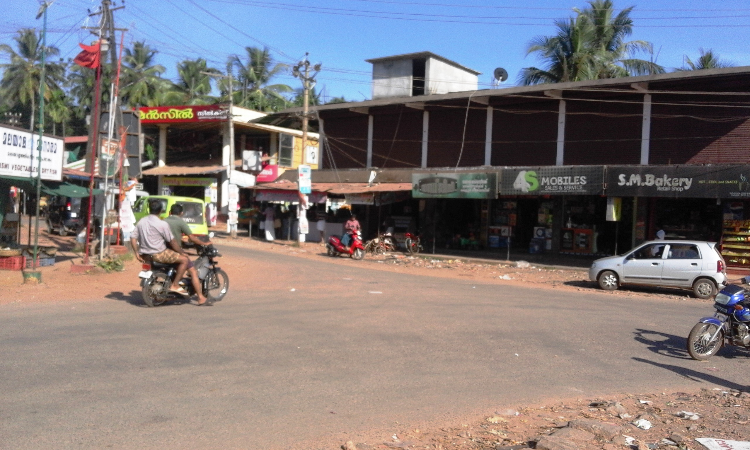 Kerala, India.